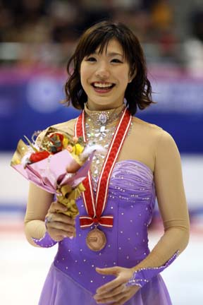 Nana Takeda during the ladies medals ceremony at the 2007 NHK Trophy. She won the bronze medal at this competition.